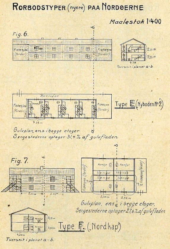 types of rorbu in Nordøyan, Vikna, Norway. Drawings by district physician Harald Natvig.